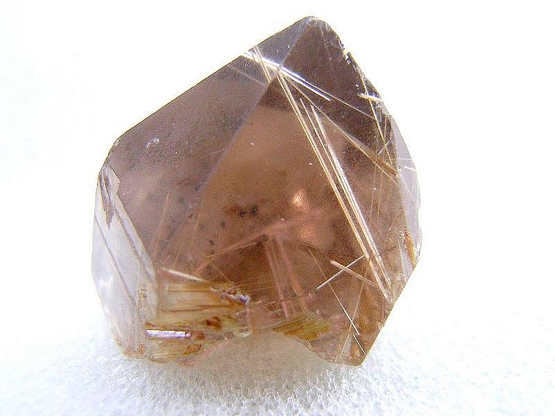 smoky Quartz crystal with Rutile inclusions